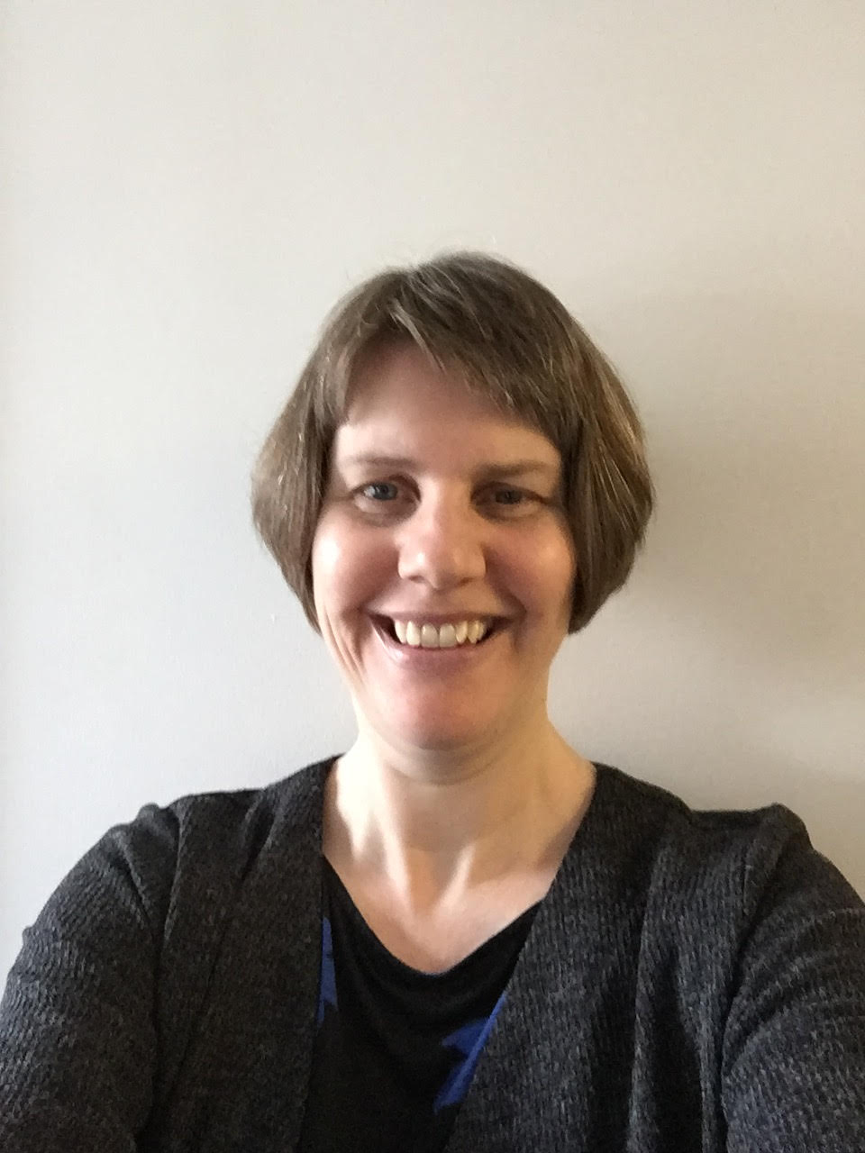 Picture of Ingrid Stairs